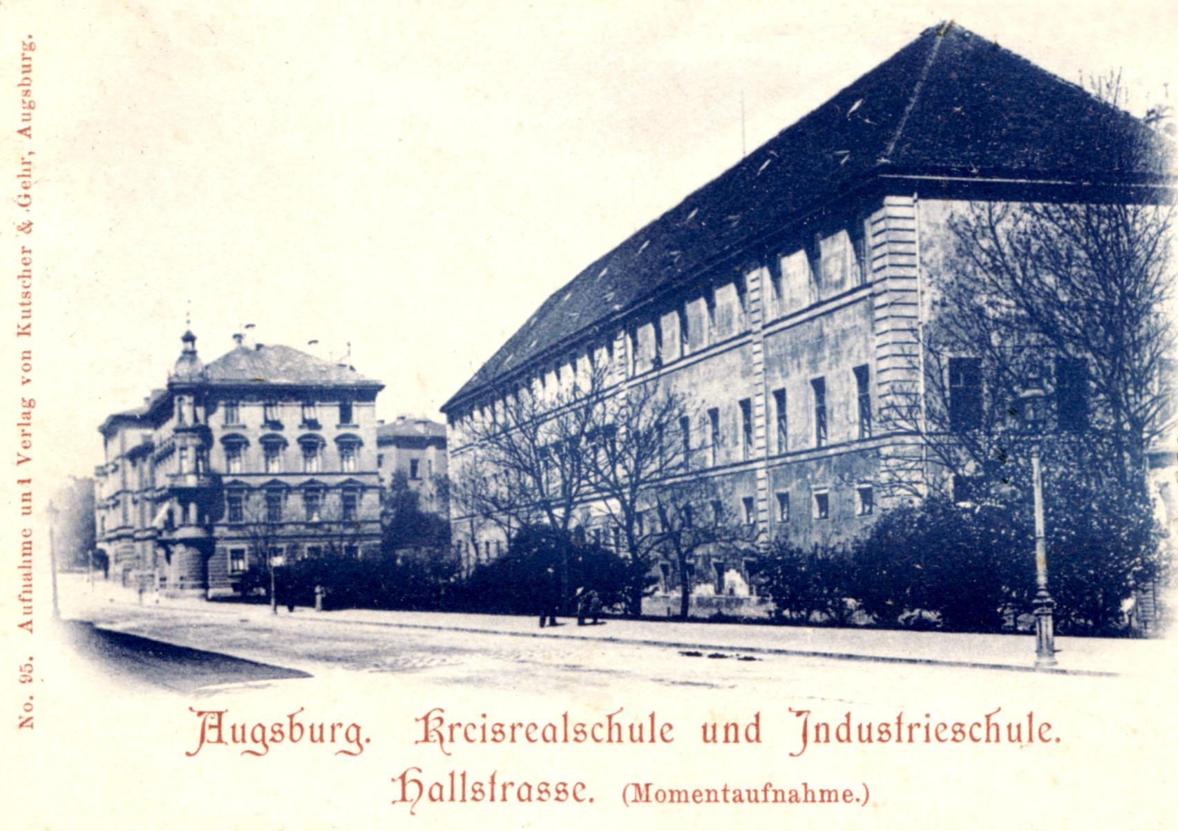 Kreisrealschule Augsburg, Hallstraße um 1895